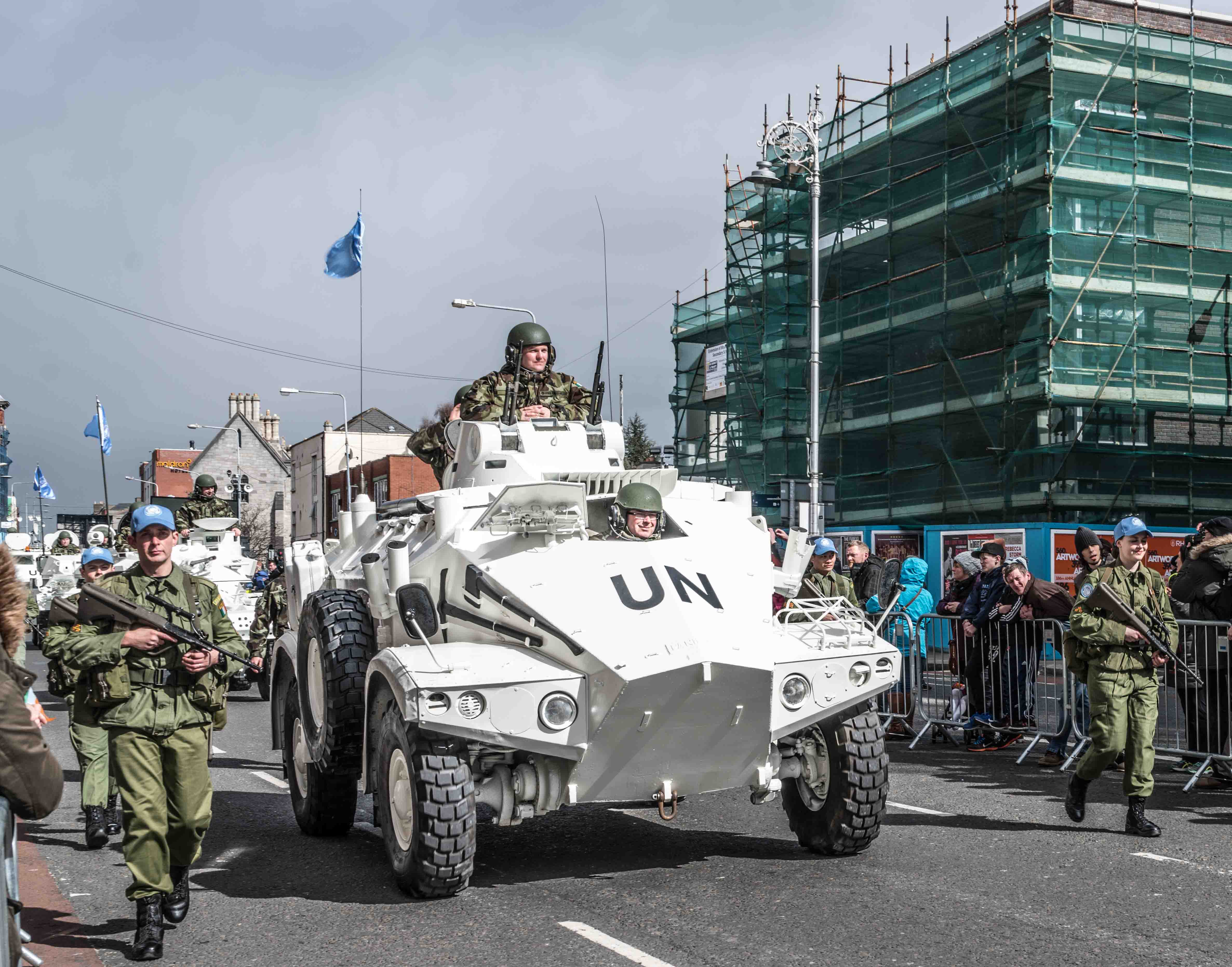 THE 2016 EASTER SUNDAY PARADE ON THE 100th. ANNIVERSARY OF THE 1916 RISING [IRISH ARMY HAS BEEN DEPLOYED ON MANY UN PEACEKEEPING MISSIONS SINCE 1958]-113057